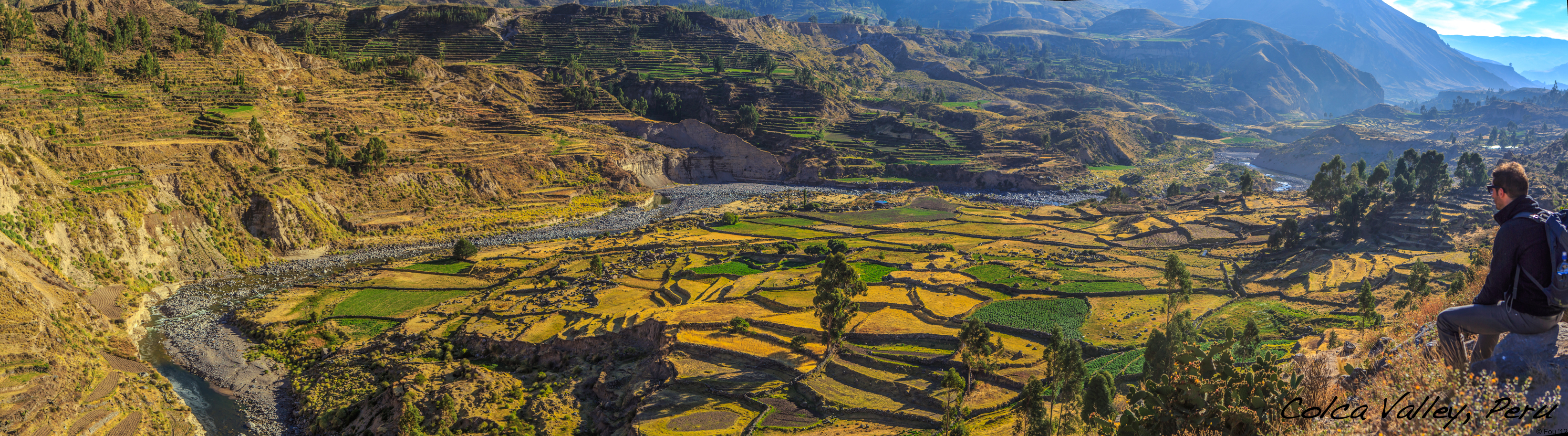 early morning light on the fields of Achoma, 3500 m